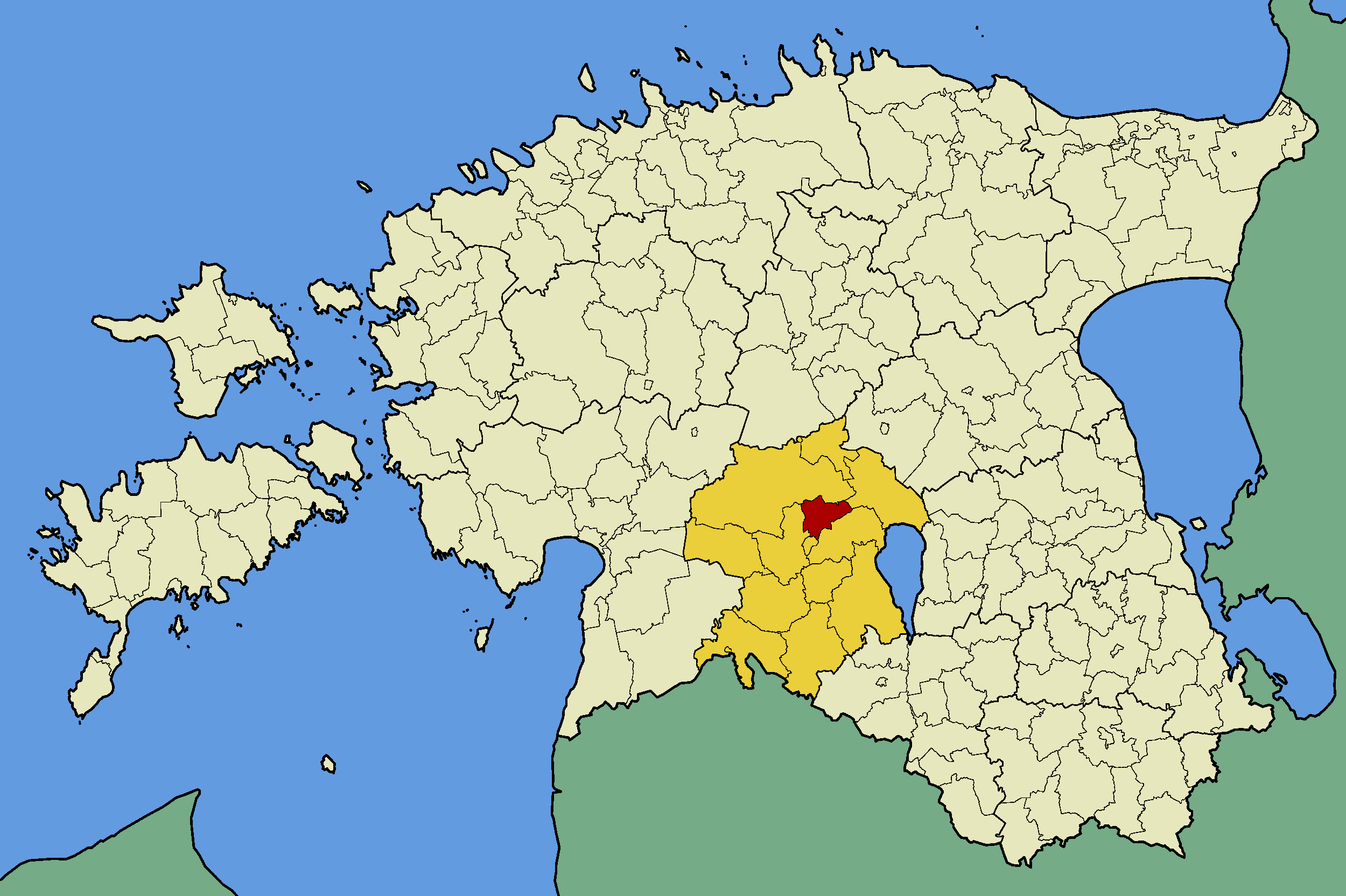 Map of Estonia with borders of municipalities (parishes). Viljandi county and Saarepeedi municipality emphasized.